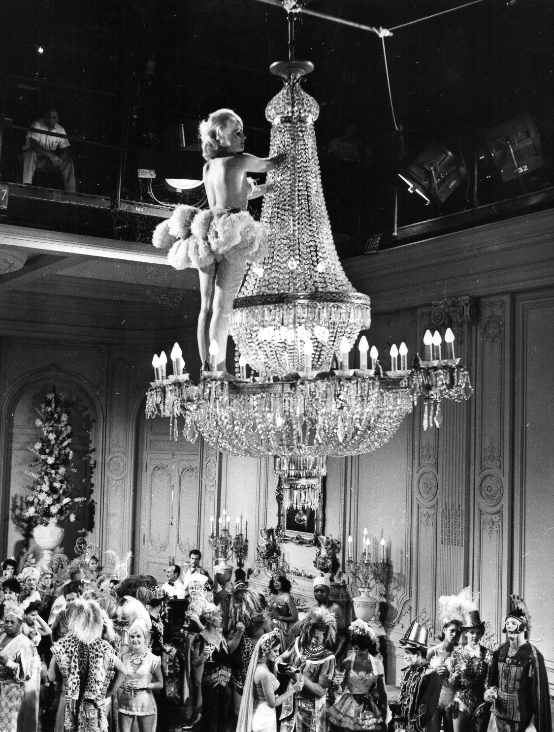 Carroll Baker in 1963 on the set of The Carpetbaggers (1964)